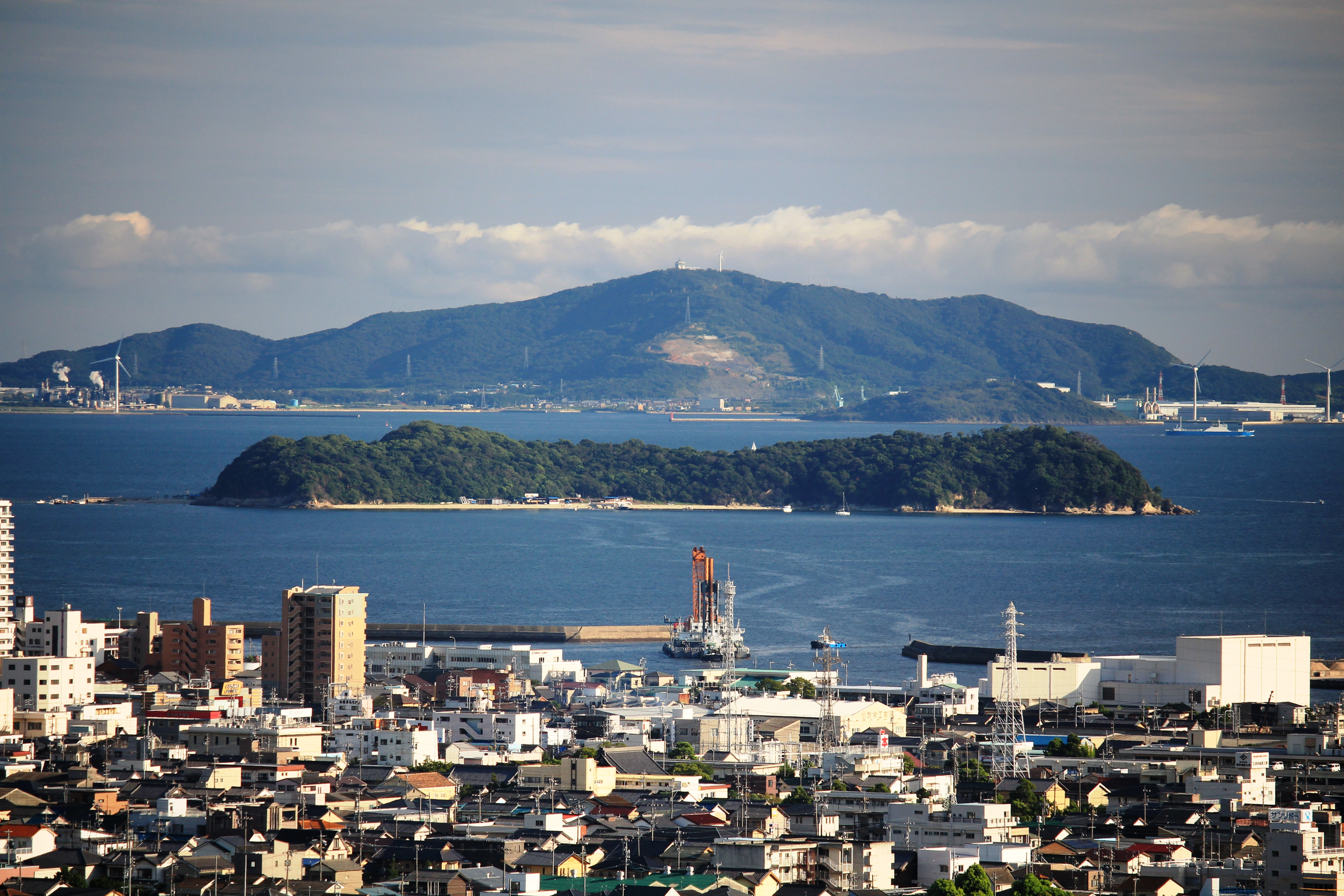 Mikawa Ōshima and Hime Island seen from R23, in Gamagori, Aichi prefecture, Japan.